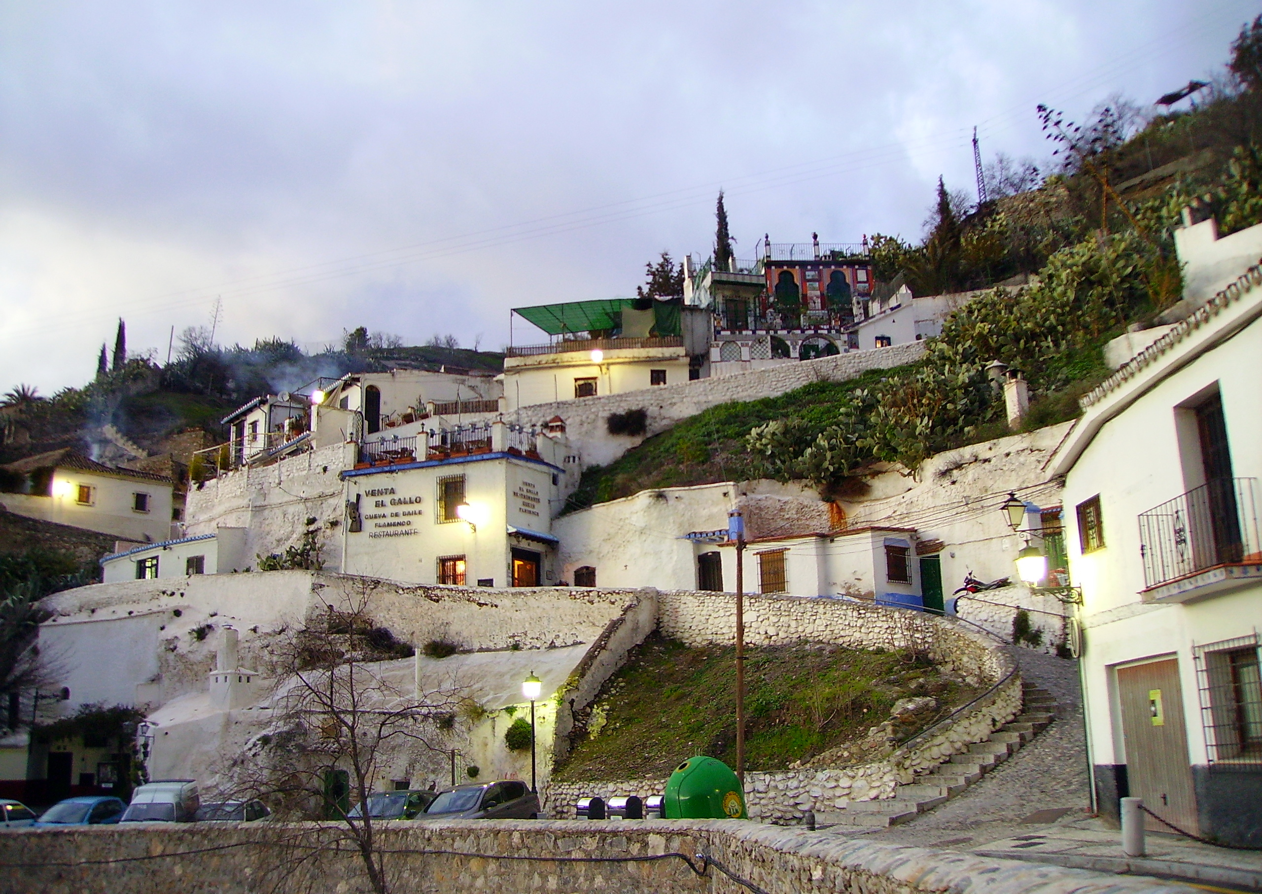 Cuevas (cave-houses) of Sacromonte